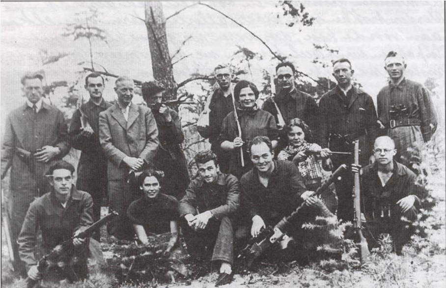 Resistance group Dalfsen Ommen Lemelerveld with Jan Houtman, front row at the right